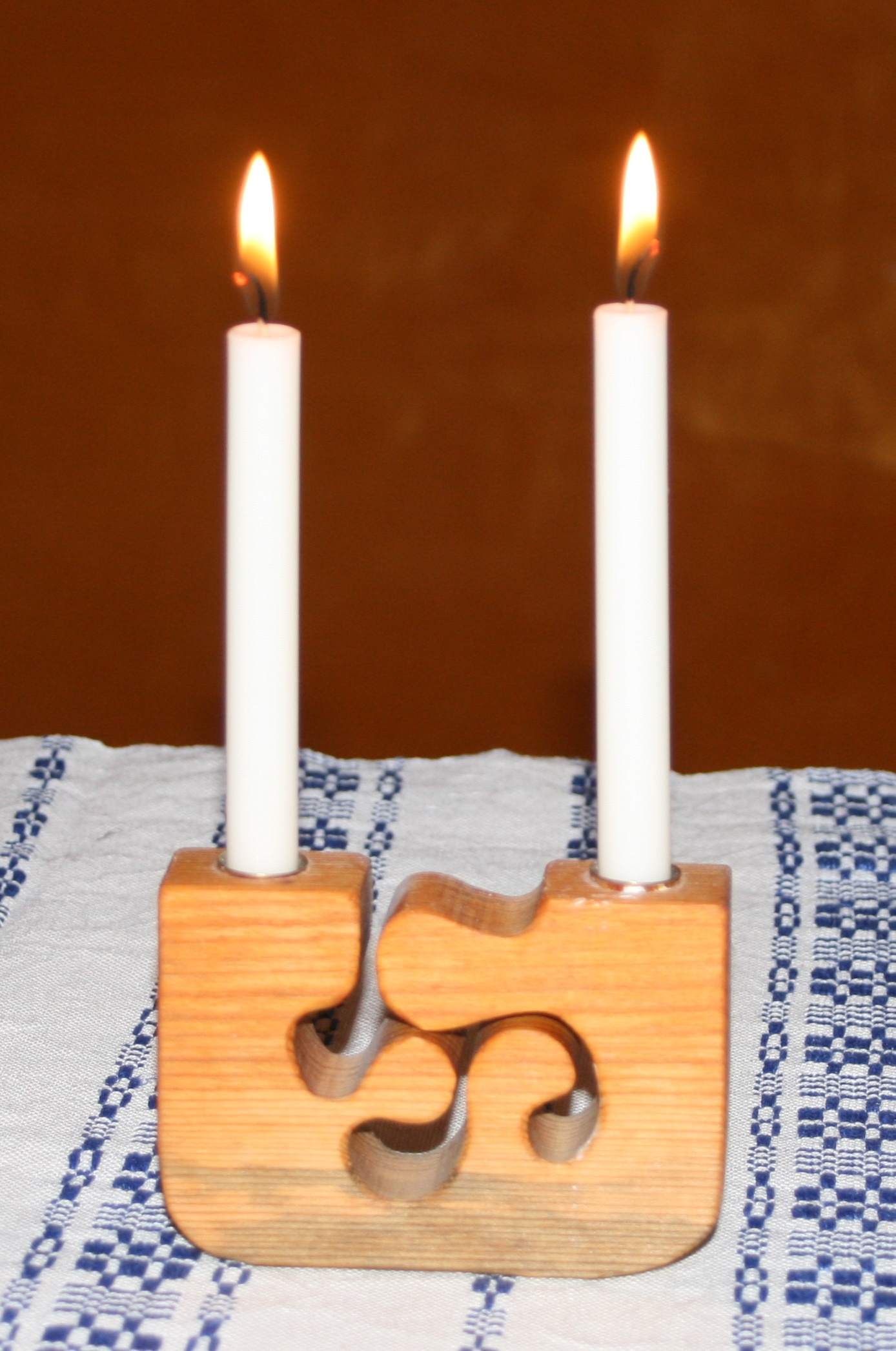 Wooden candlestick made by woodcarver Jan Kanevad (born 1959), Gamla Linköping, Linköping, Sweden. Many of Kanevad's products are made with a band saw.